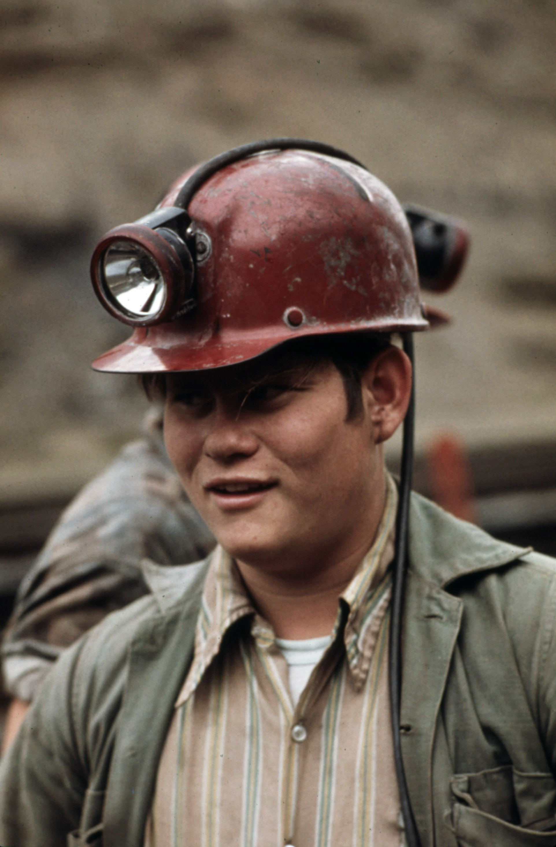 Original Caption: One of a Series of Portraits of Miners Waiting to Go to Work on the 4 P.M. to Midnight Shift at the Virginia-Pocahontas Coal Company Mine #4 near Richlands, Virginia. His Red Hat Means That He Has Been Working Below Ground Less Than One Month. Before Going Underground He Received 40 Hours of Training in the Classroom Which Included Closed Circuit Television and Audio Visual Materials. He Also Is Closely Supervised by Veteran Miners in His First Month 04/1974 U.S. National Archives’ Local Identifier: 412-DA-13892 Photographer: Corn, Jack, 1929- Subjects: Richlands (Tazewell county, Virginia, United States) inhabited place Environmental Protection Agency Project DOCUMERICA Persistent URL: Repository: Still Picture Records Section, Special Media Archives Services Division (NWCS-S), National Archives at College Park, 8601 Adelphi Road, College Park, MD, 20740-6001. For information about ordering reproductions of photographs held by the Still Picture Unit, visit: Reproductions may be ordered via an independent vendor. NARA maintains a list of vendors at Access Restrictions: Unrestricted Use Restrictions: Unrestricted